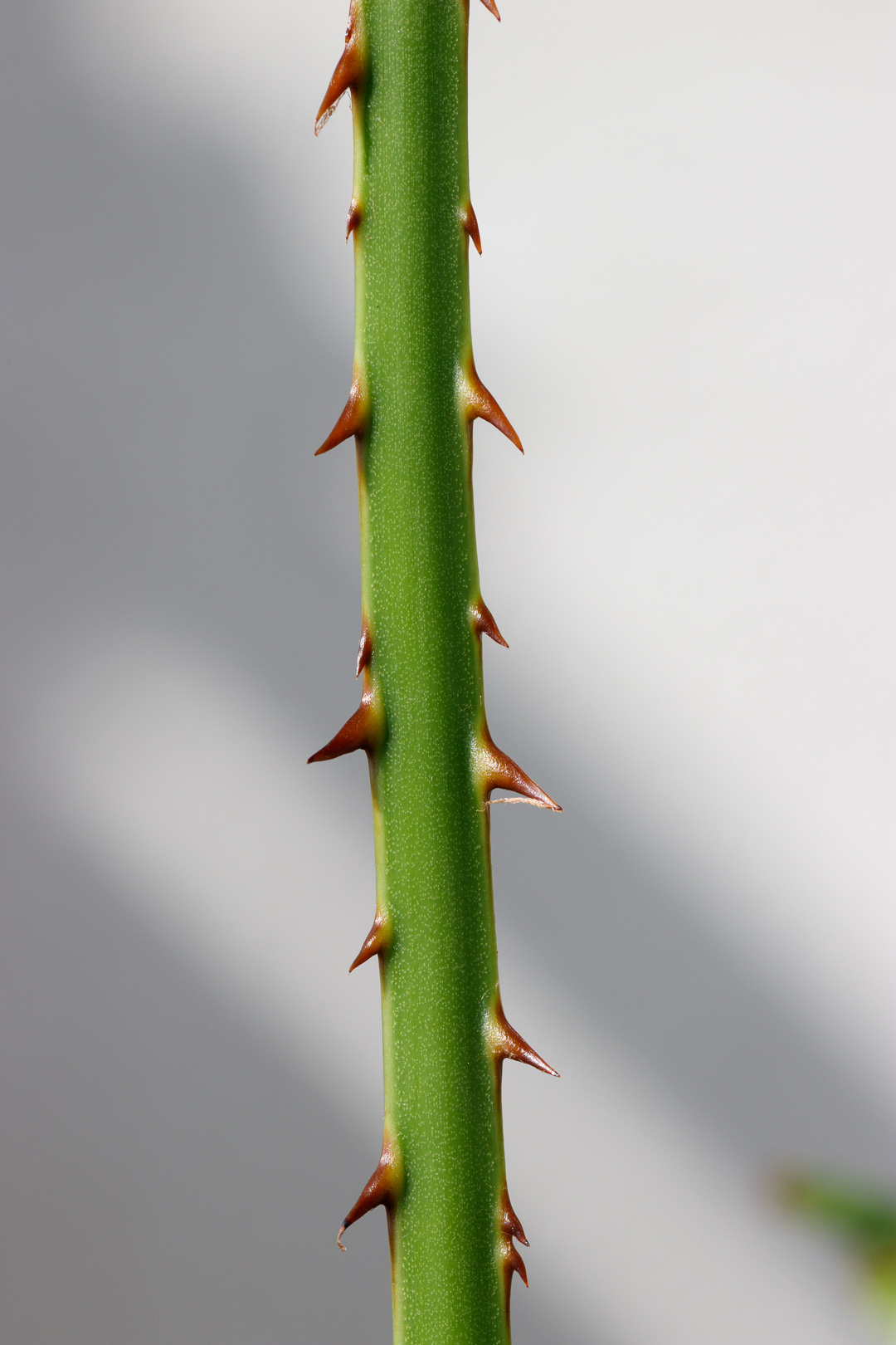 Spines on margins of the petiole of the Saribus rotundifolius (syn. Livistona rotundifolia). A young pot plant.